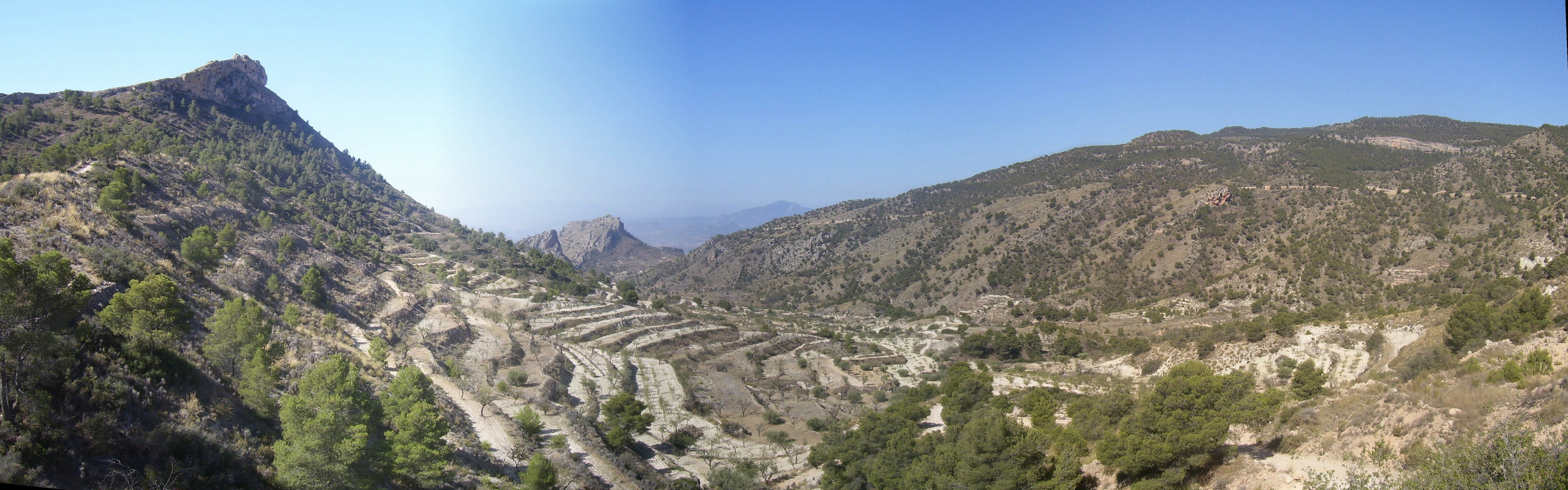 Molina de Segura - Sierra de la Pila